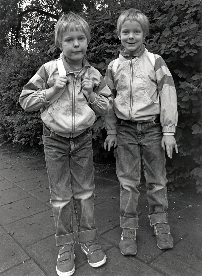 Dizygotic twins (unidentical), seven years old.